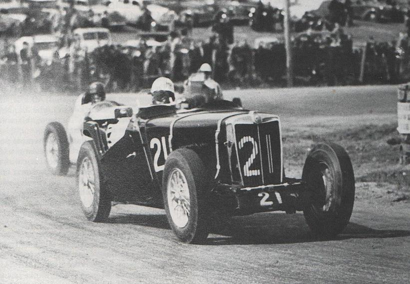 The MG TC of Bill Murray contesting the 1947 Australian Grand Prix. Murray won the race, which was contested as a handicap event.